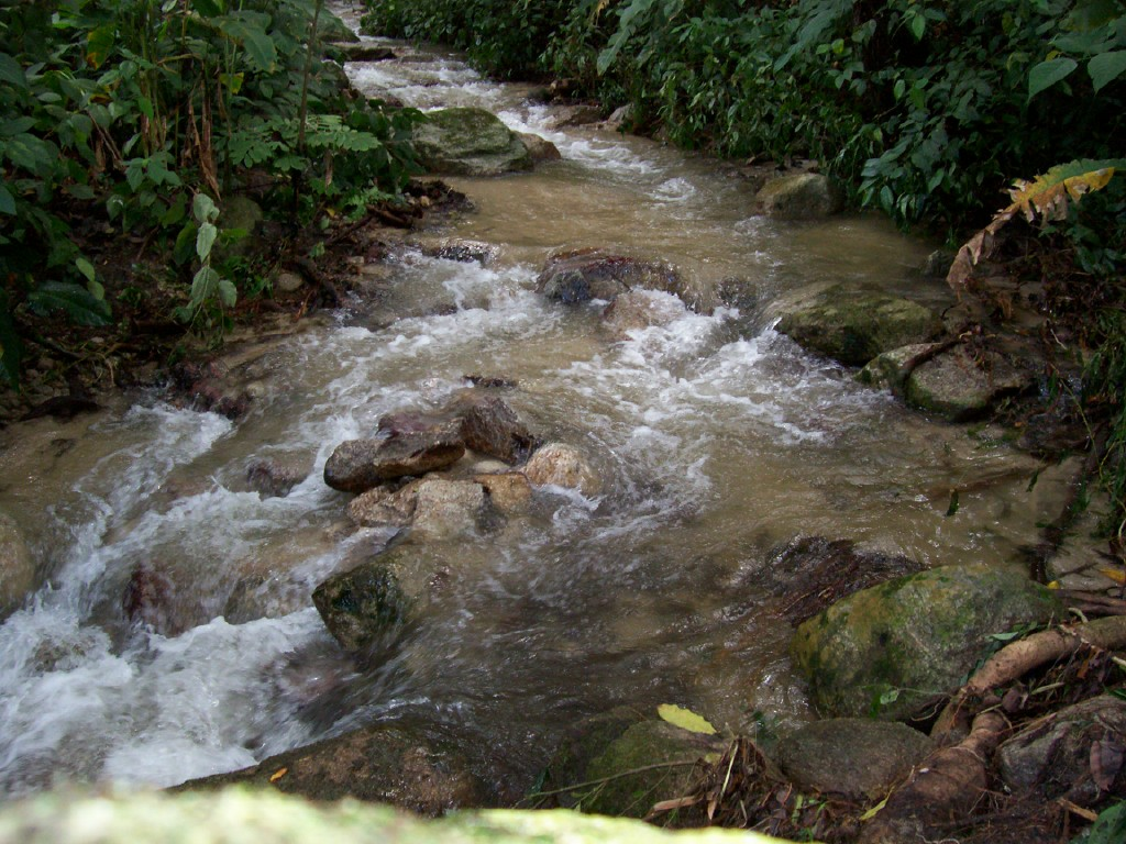 Creek south side, Henri Pittier National Park, Venezuela.